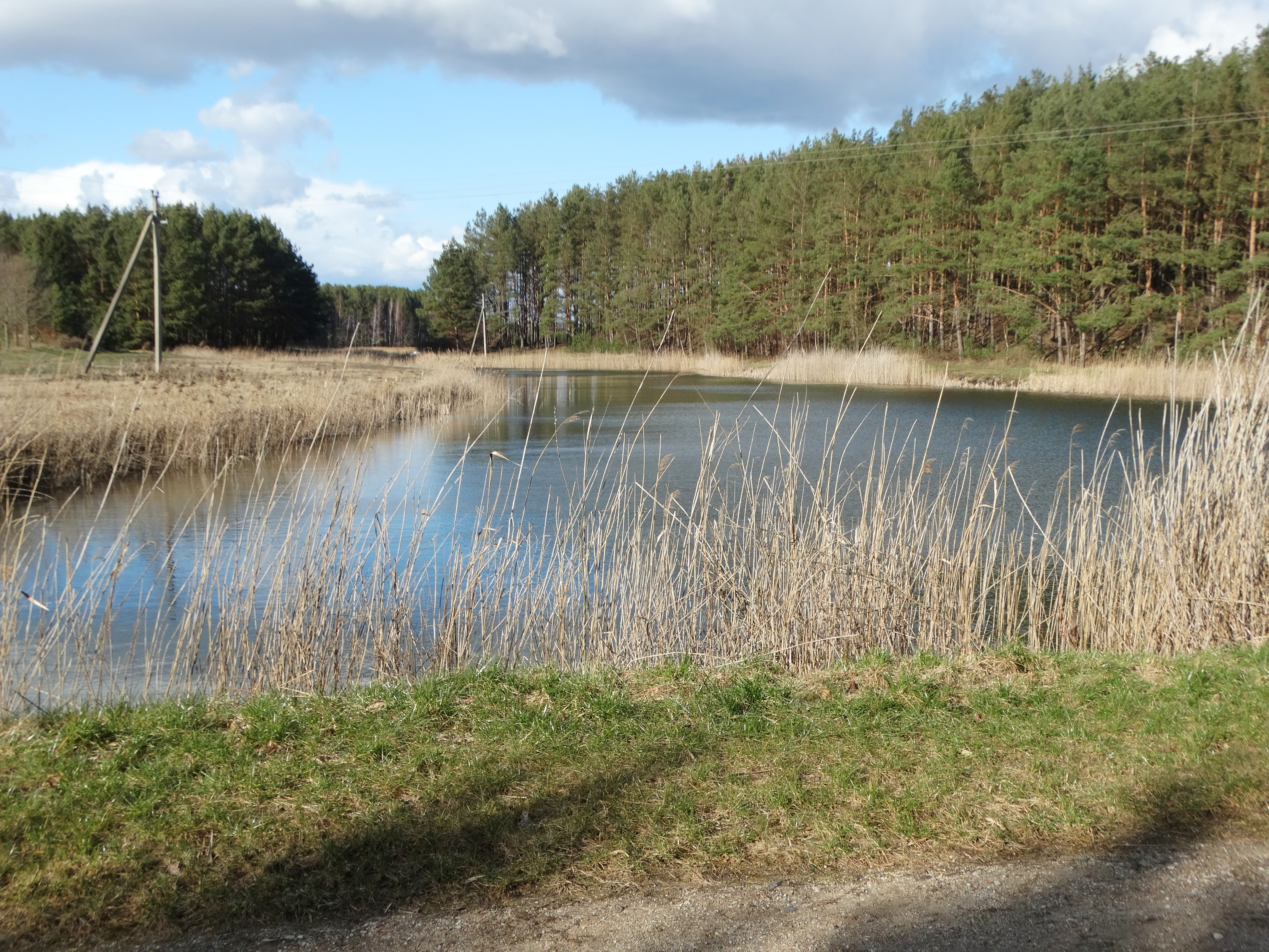 Kadrėnai Pond, Ukmergė district, Lithuania